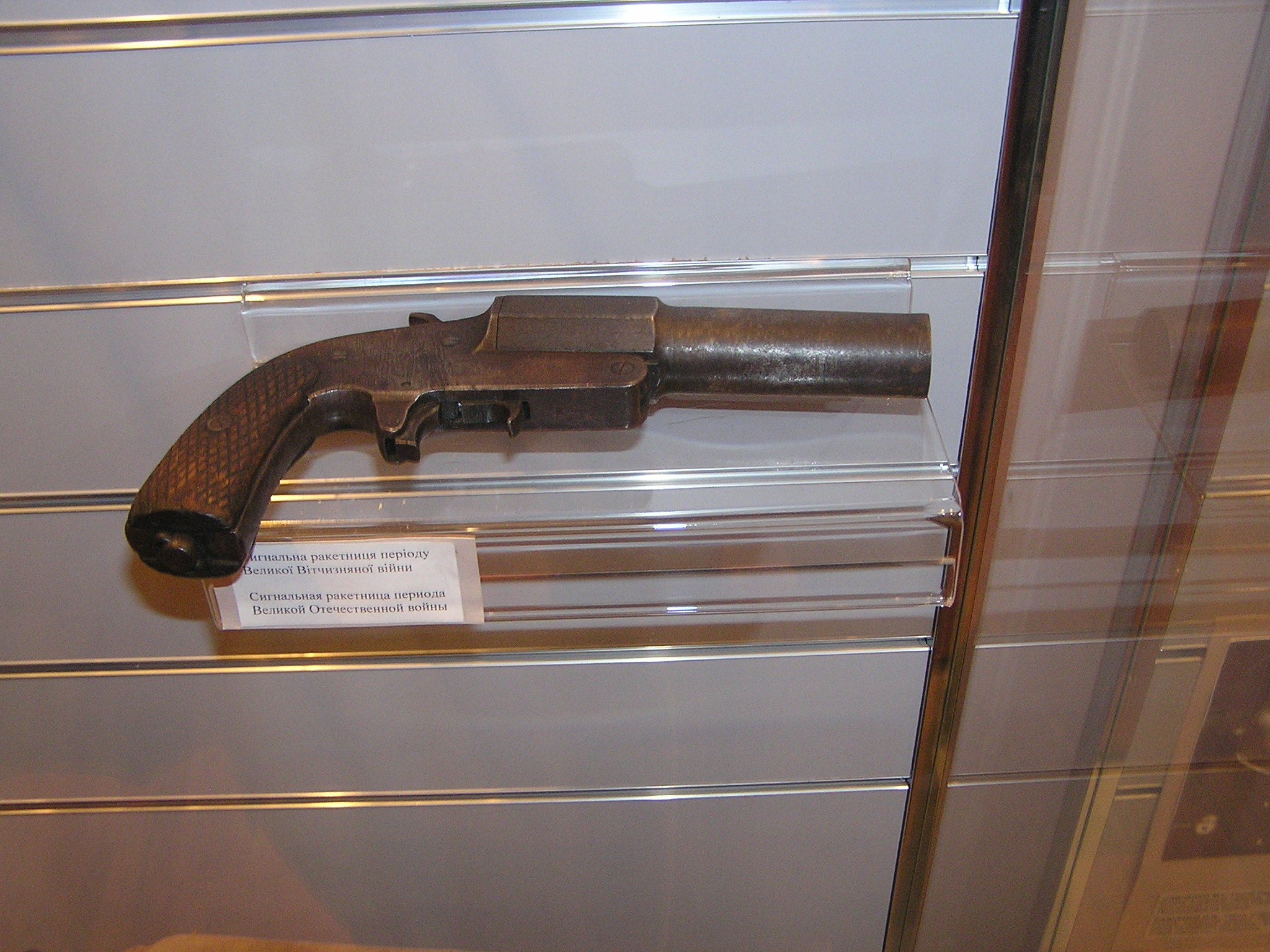 Museum of the History of Donetsk militsiya